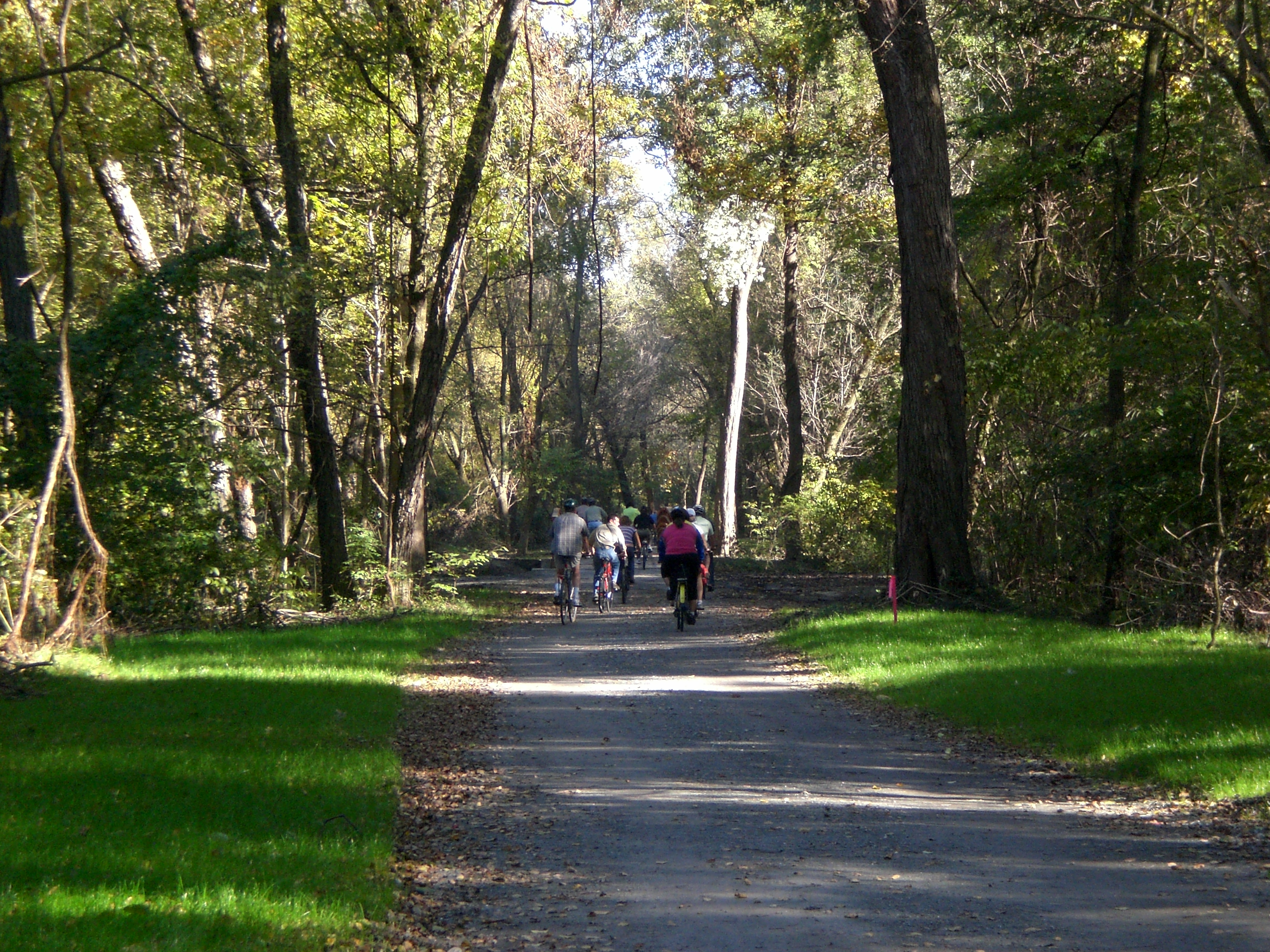 Local Bicyclists enjoy a day on the trail